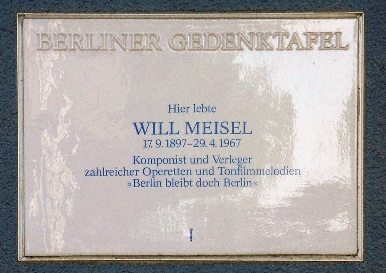 Berlin memorial plaque, Will Meisel, Jonasstraße 22, Berlin-Neukölln, Germany Koordinate:52°28′17.3″N 13°26′2.6″E / 52.471472°N 13.434056°E